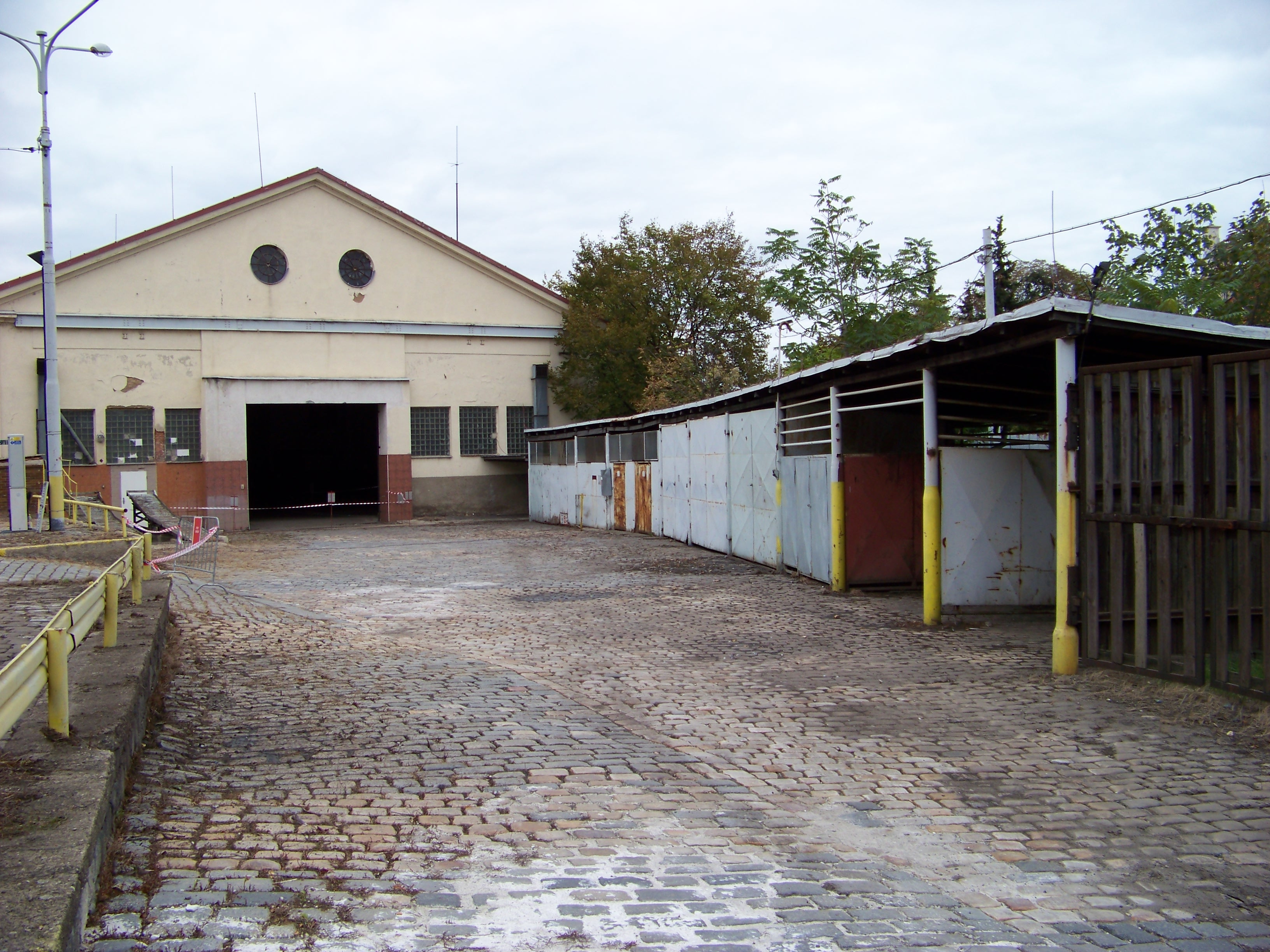 Prague-Vinohrady, the Czech Republic. Former tram depot. (European Heritage Days visiting day.)